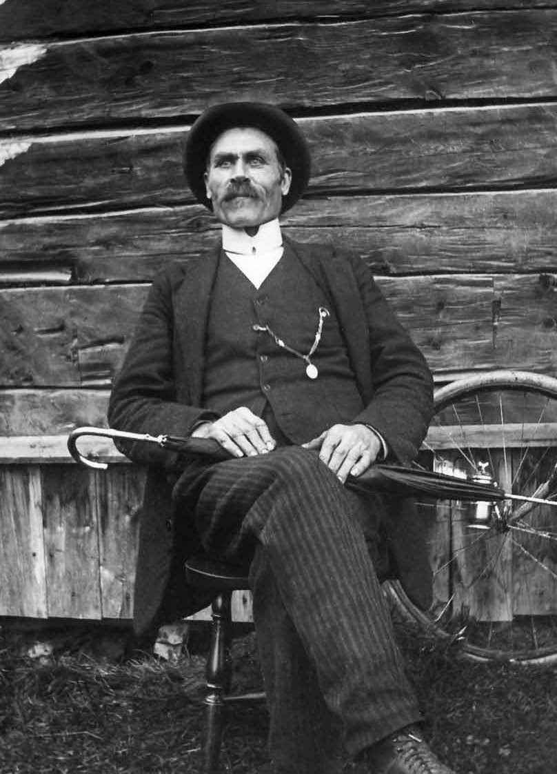 Swedish naivist artist Johan Erik "Lim-Johan" Olsson (1865-1944)